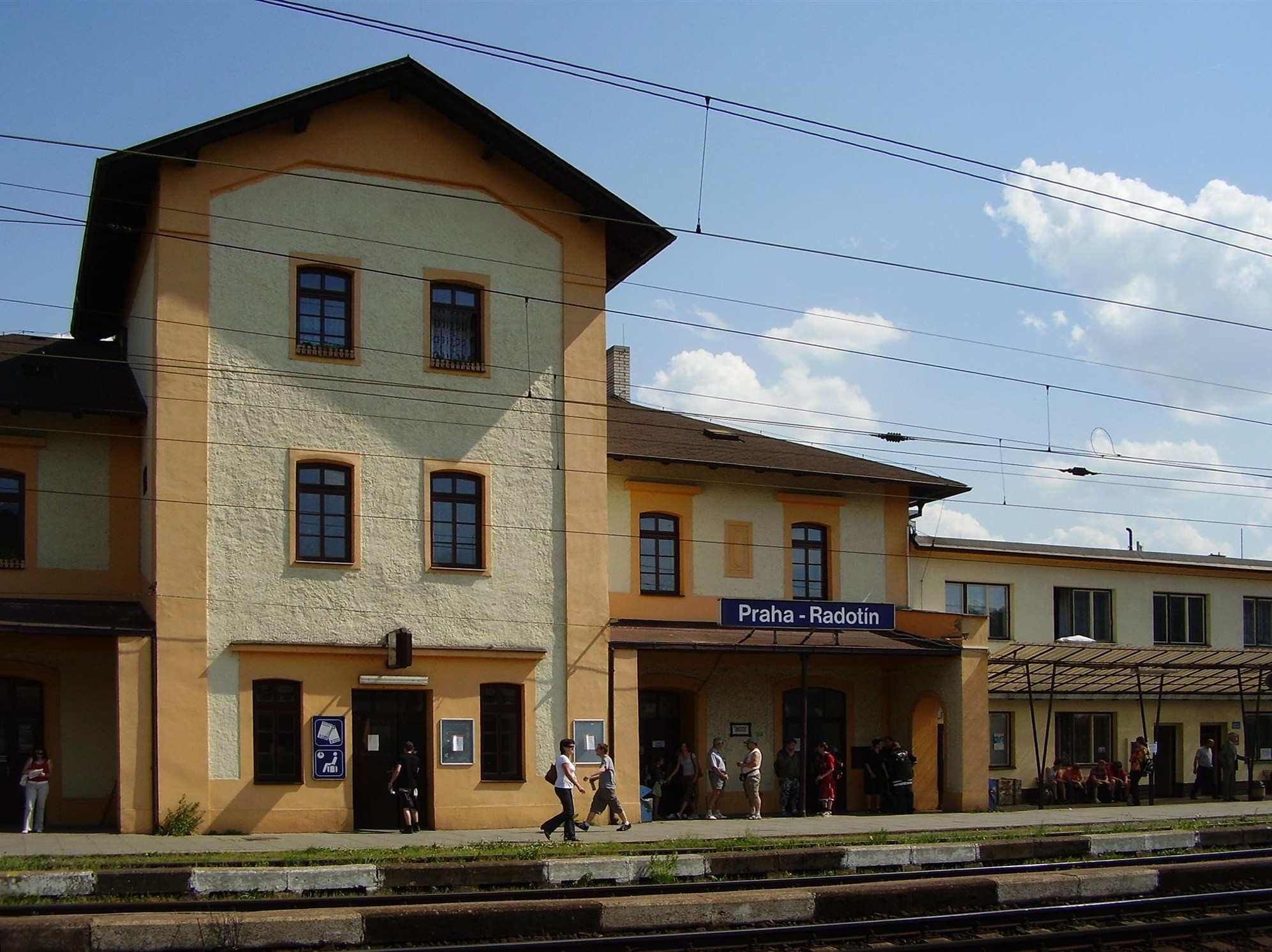 Train station Praha-Radotín